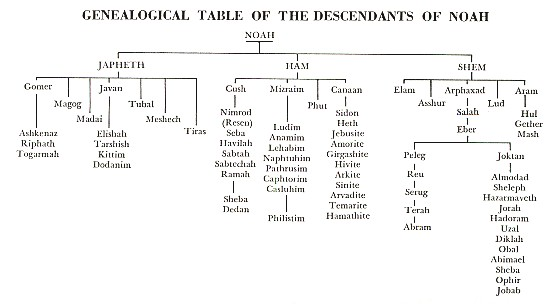 Table of nations according to genesis 10ץ